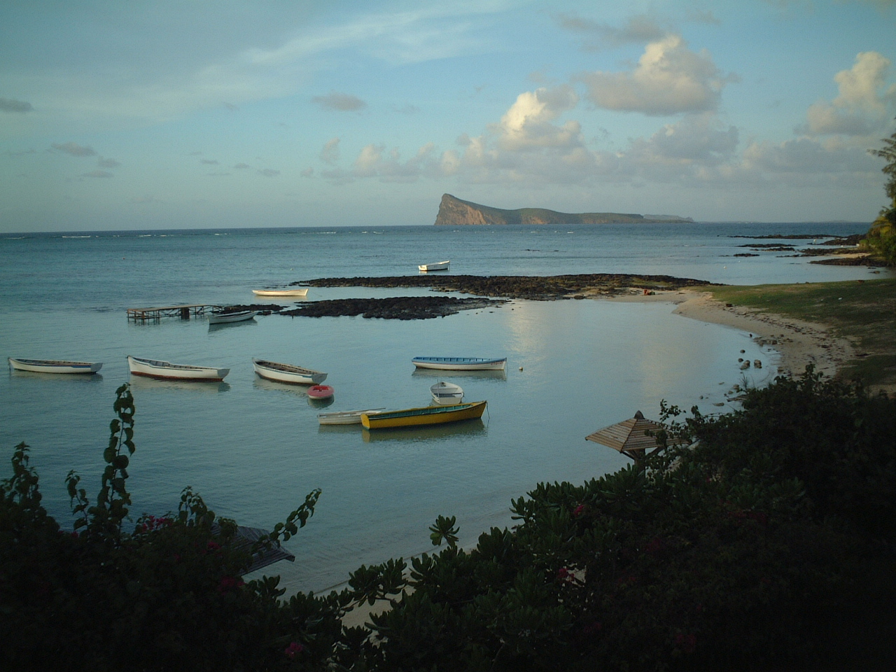 Coin de Mire, from Cape Malheureux, Mauritius